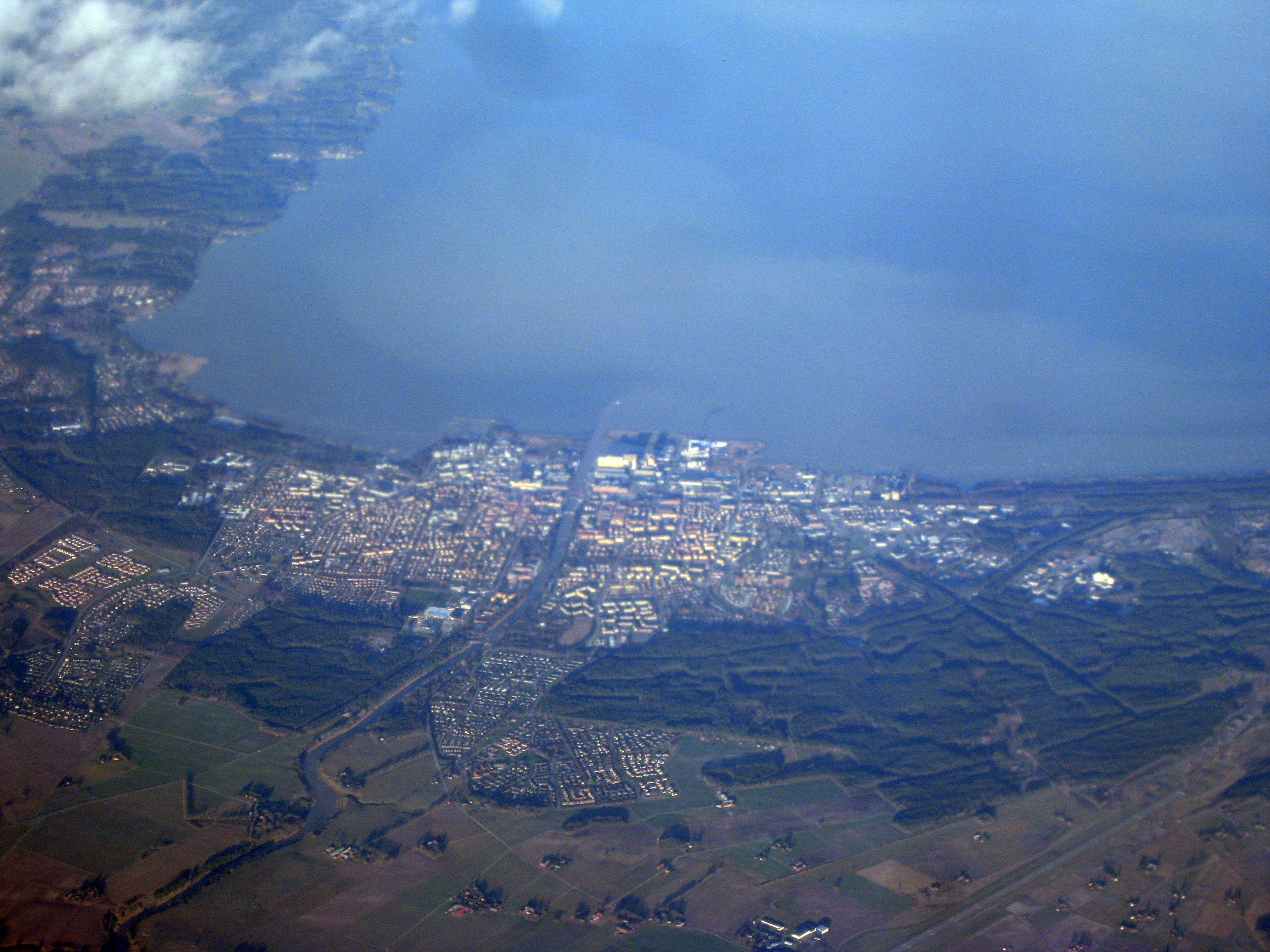 Lidköping, a city on Vänern, the largest lake in Sweden.